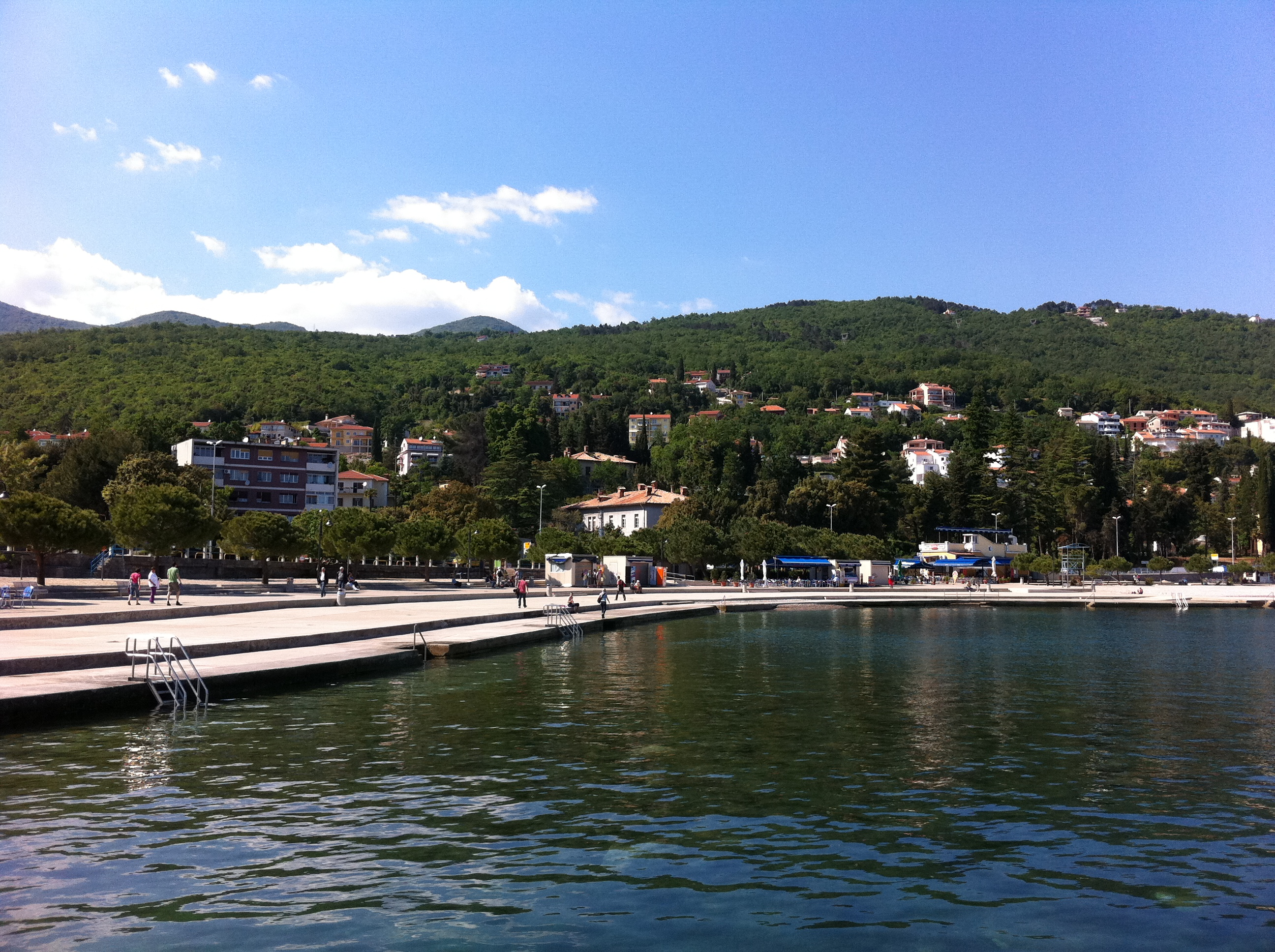 A spring day